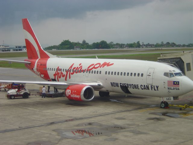 AirAsia Boeing 737-300 (9M-AAO)Air Asia - delay as always